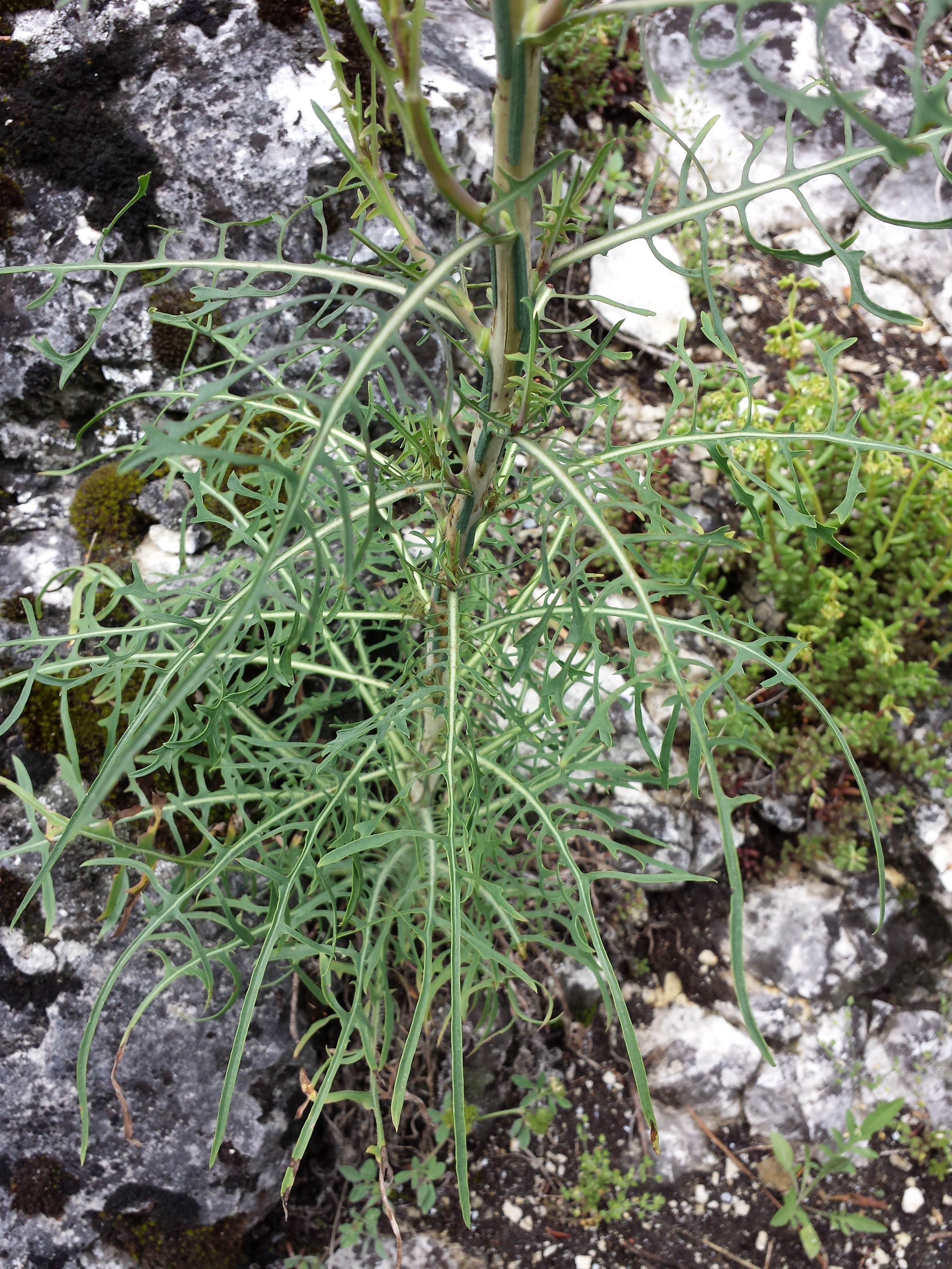 Stipe and leaves Taxon: Lactuca viminea (sensu Fischer et al. EfÖLS 2008 ISBN 978-3-85474-187-9; det. W. Adler 2014-05-30) Location: Staatzer Klippe, district Mistelbach, Lower Austria - ca. 300 m a.s.l. Habitat: rock steppe (limestone) This media shows the natural monument in Lower Austria with the ID MI-052.